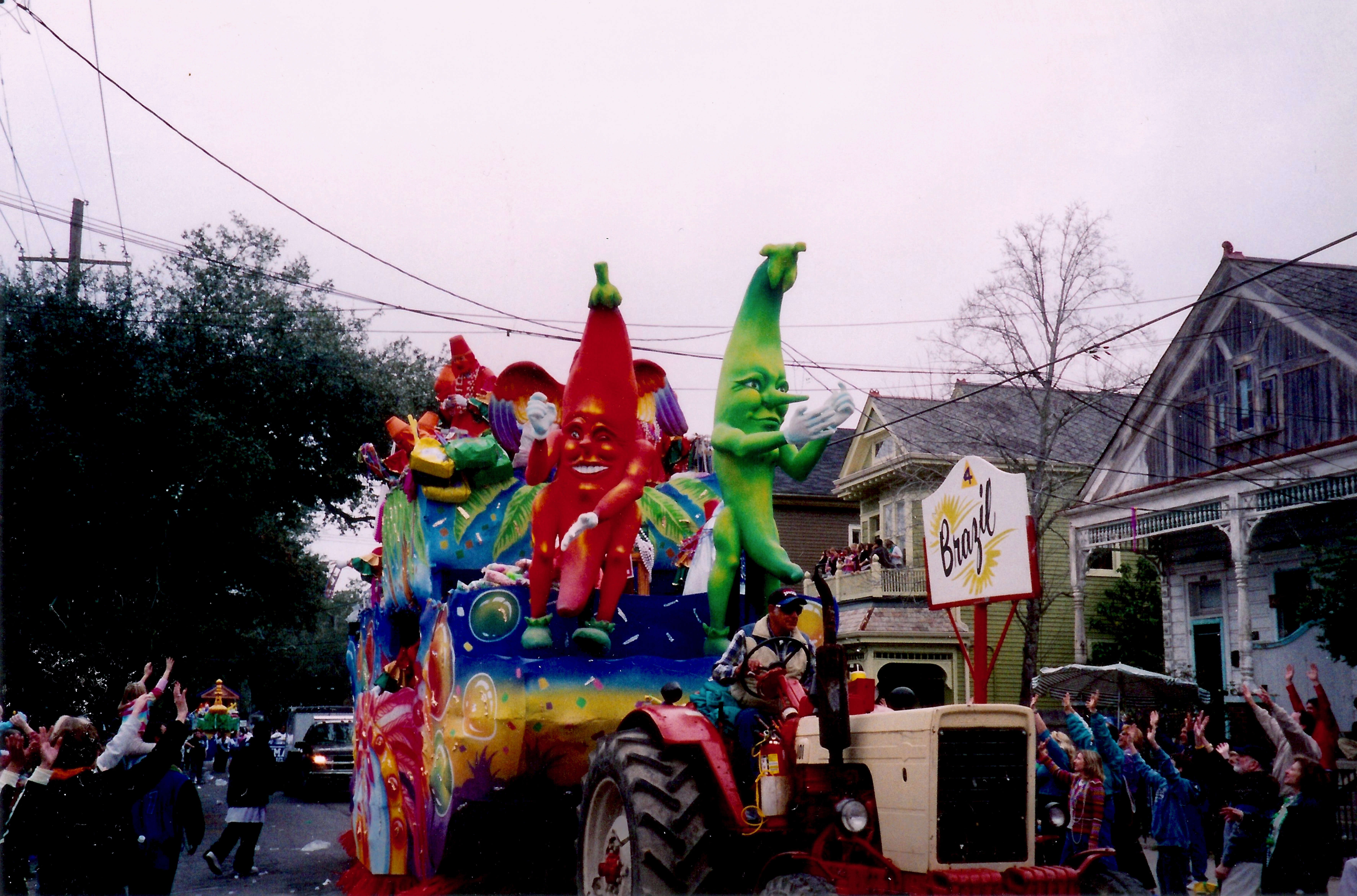 New Orleans Carnival float Krewe of Thoth Parade, Magazine Street Photo by Infrogmation, 6 February, 2005.